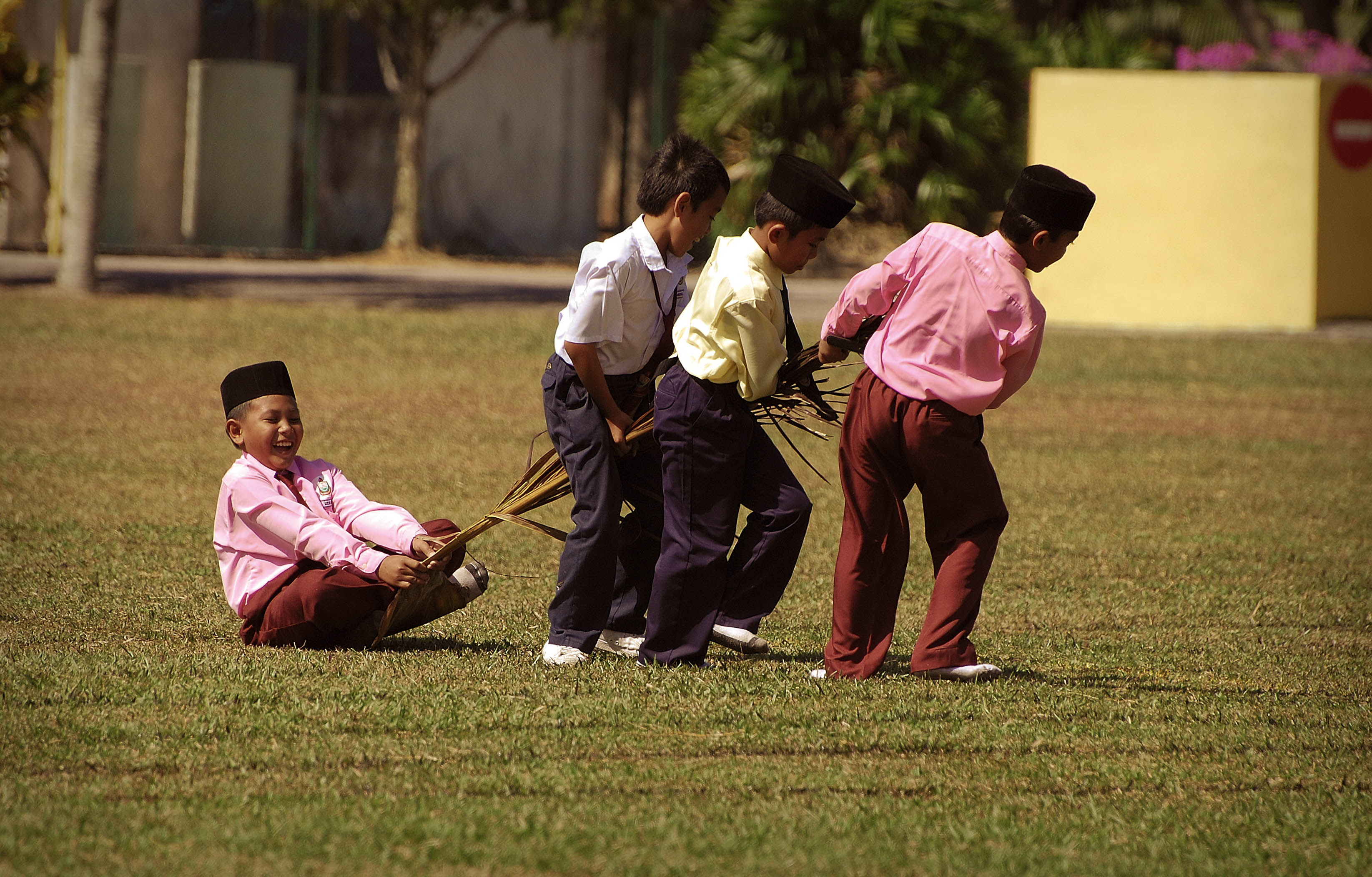 Four Malay boys having a fun go at tarik upih pinang (palm frond sledding)